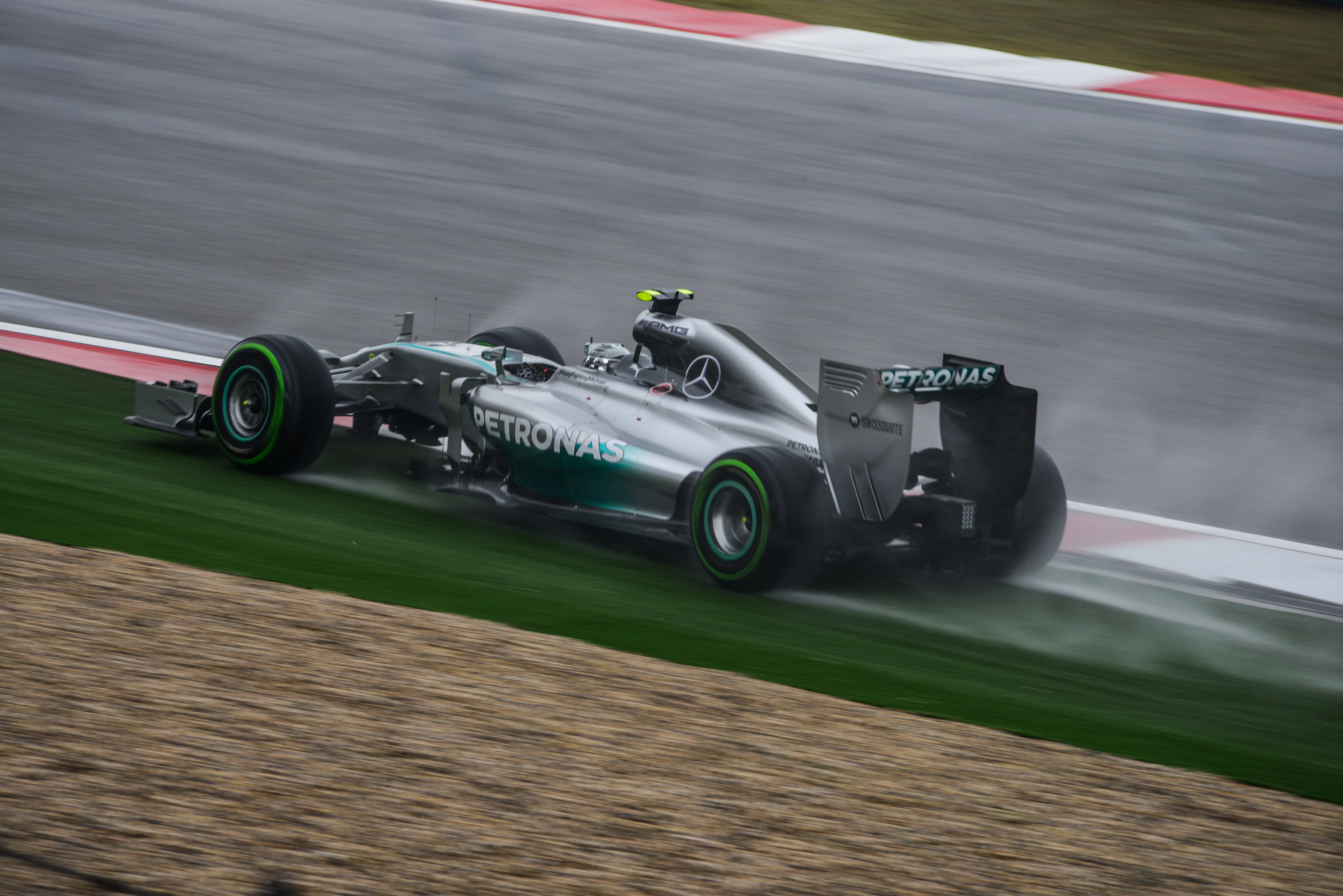 Nico Rosberg (Mercedes GP)